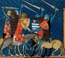 Fulk of Anjou defeating his brother Geoffrey